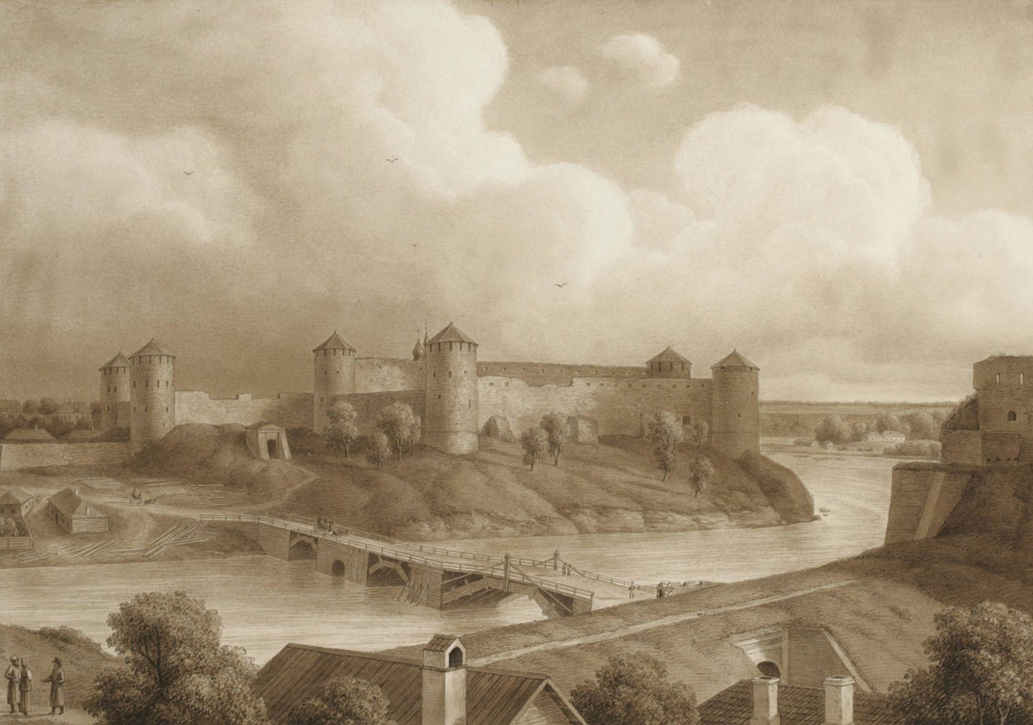 Ruins of the Old Castle at Ivangorod (from a Series of Views of Narva), 1818